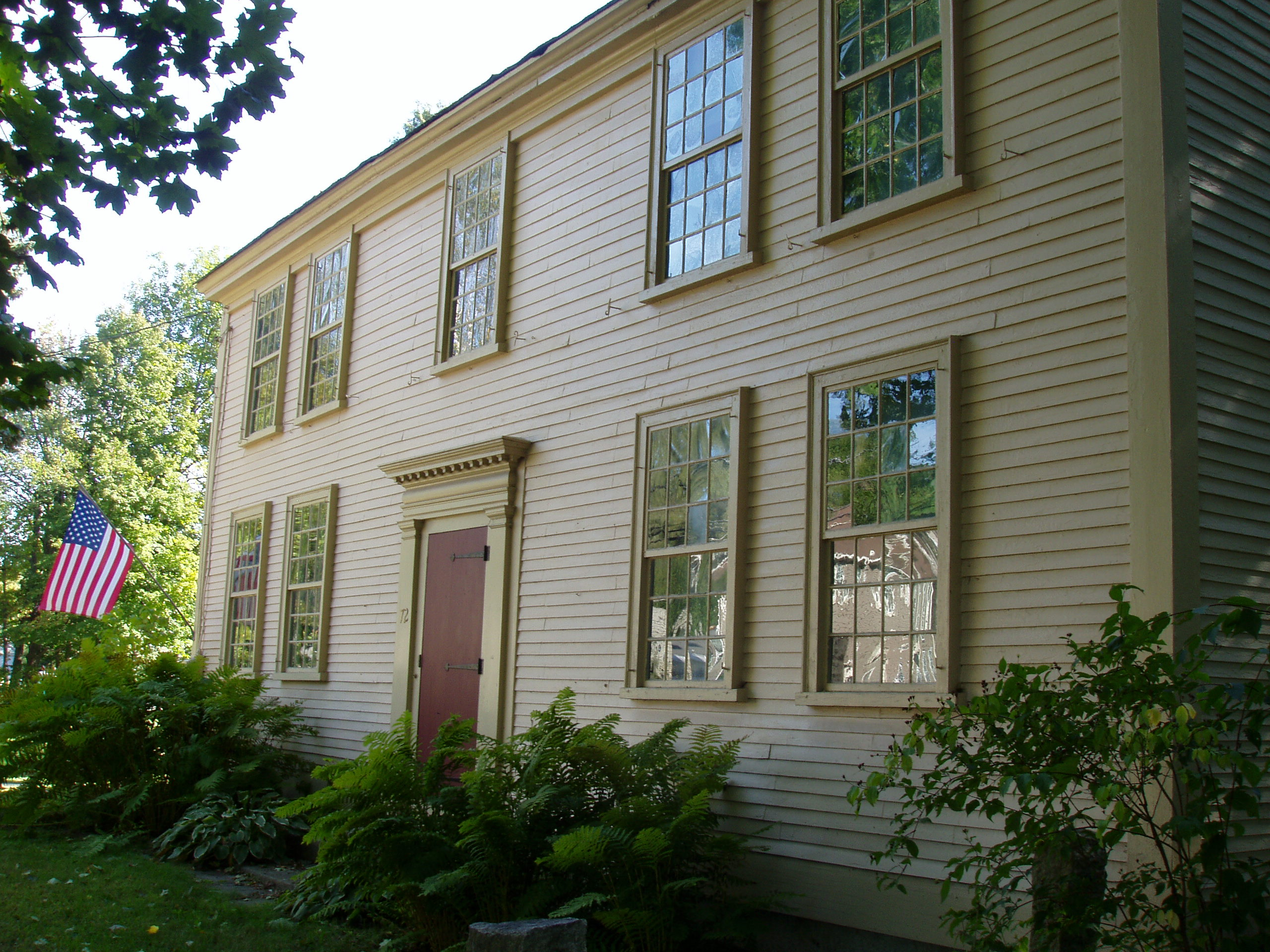 Reed Homestead (exterior) - Townsend, Massachusetts. A room with murals attributed to Rufus Porter, itinerate painter, inventor, and founder of The Scientific American Magazine, is a special feature of the house. Photograph taken by me, October 2005.